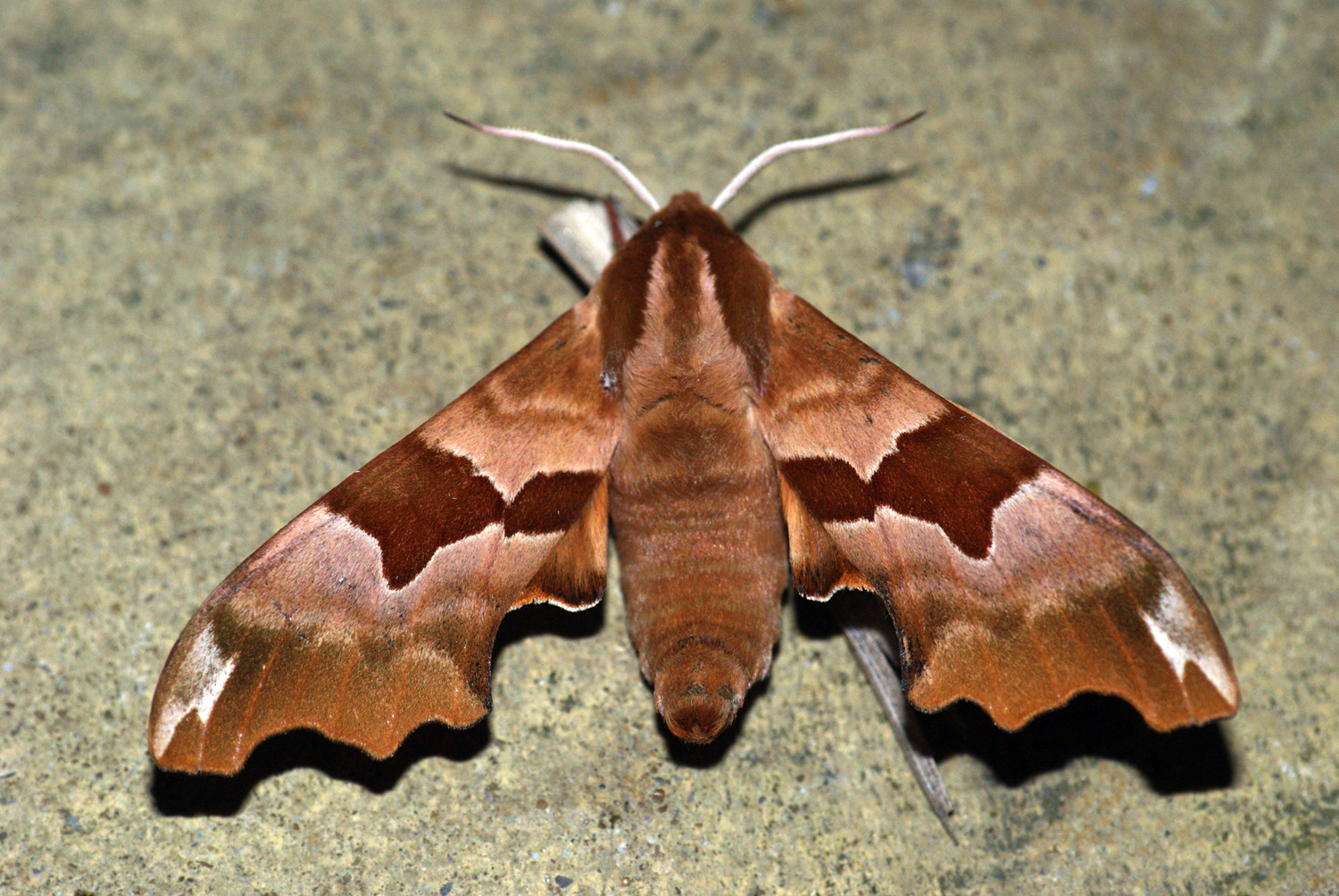 The brown form of this beautiful Moth